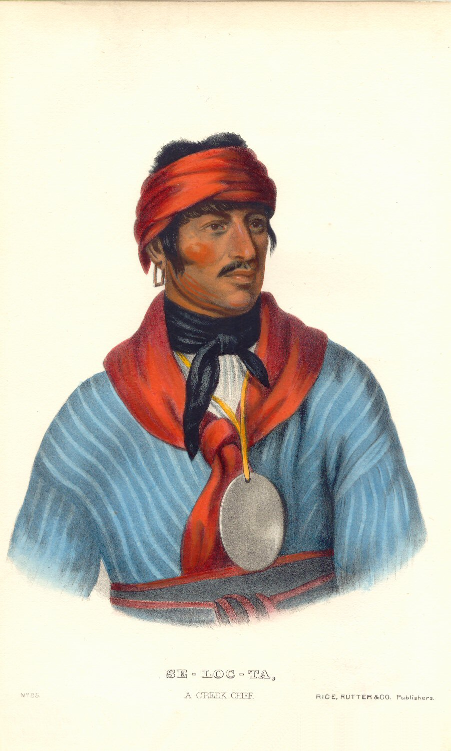 Portrait of Muscogee (Creek) Se-loc-ta